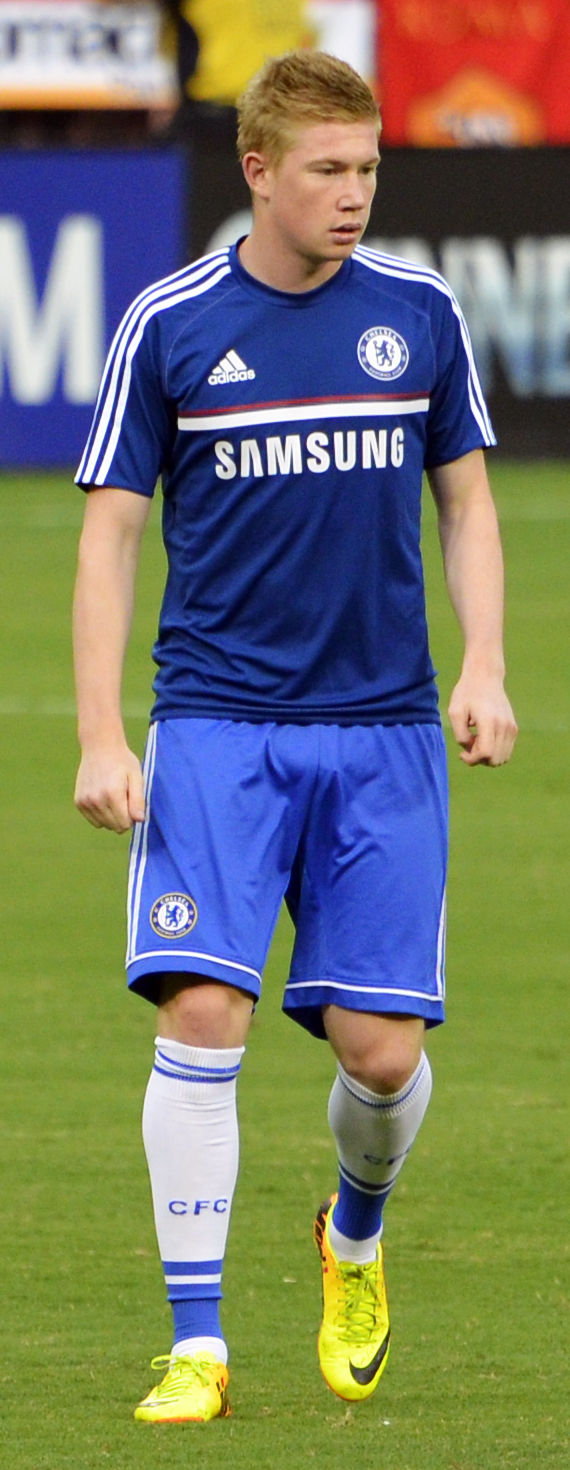 Kevin De Bruyne of Chelsea FC warming up prior to a friendly game against A.S. Roma. Game was played at Robert F. Kennedy Memorial Stadium in Washington D.C. on 10AUG2013.